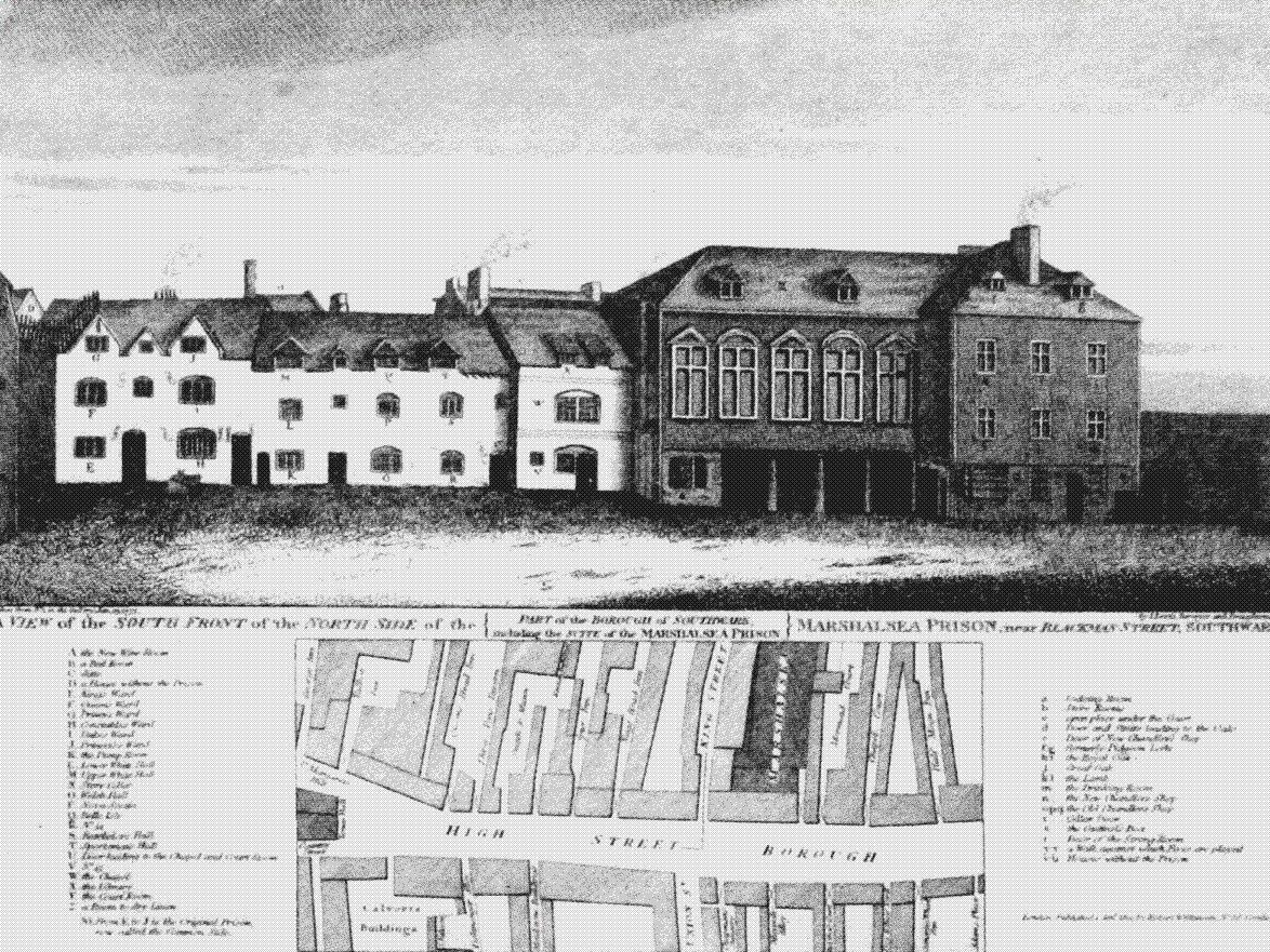 The first Marshalsea prison on Borough High Street, Southwark, showing the south front of the north side, 1773.